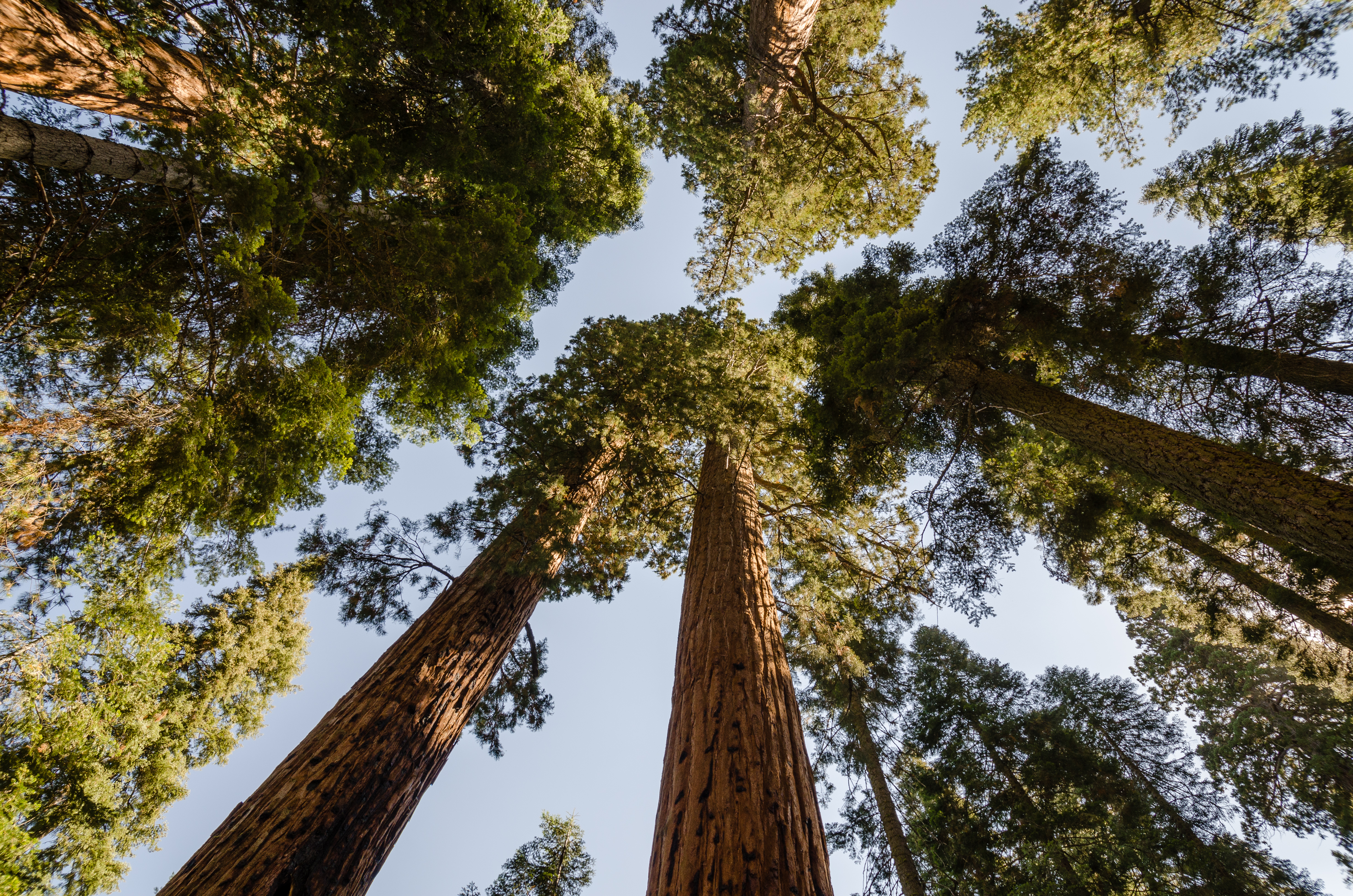 Giant Sequoias photographed into the sky.